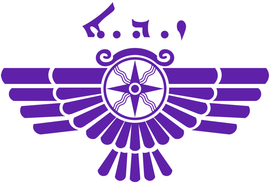 The official emblem to the Assyrian Democratic Movement 'ZOWAA'